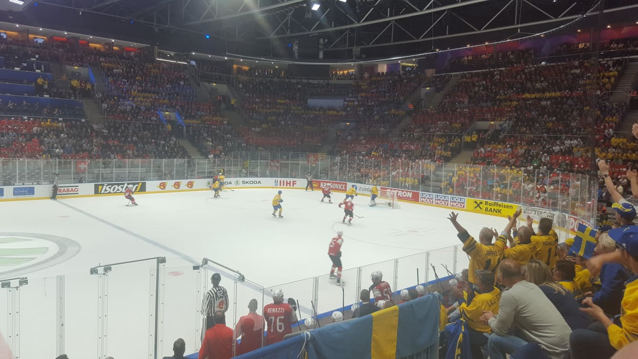 2019 IIHF ICE HOCKEY WORLD CHAMPIONSHIP. Sweden - Switzerland in Bratislava.